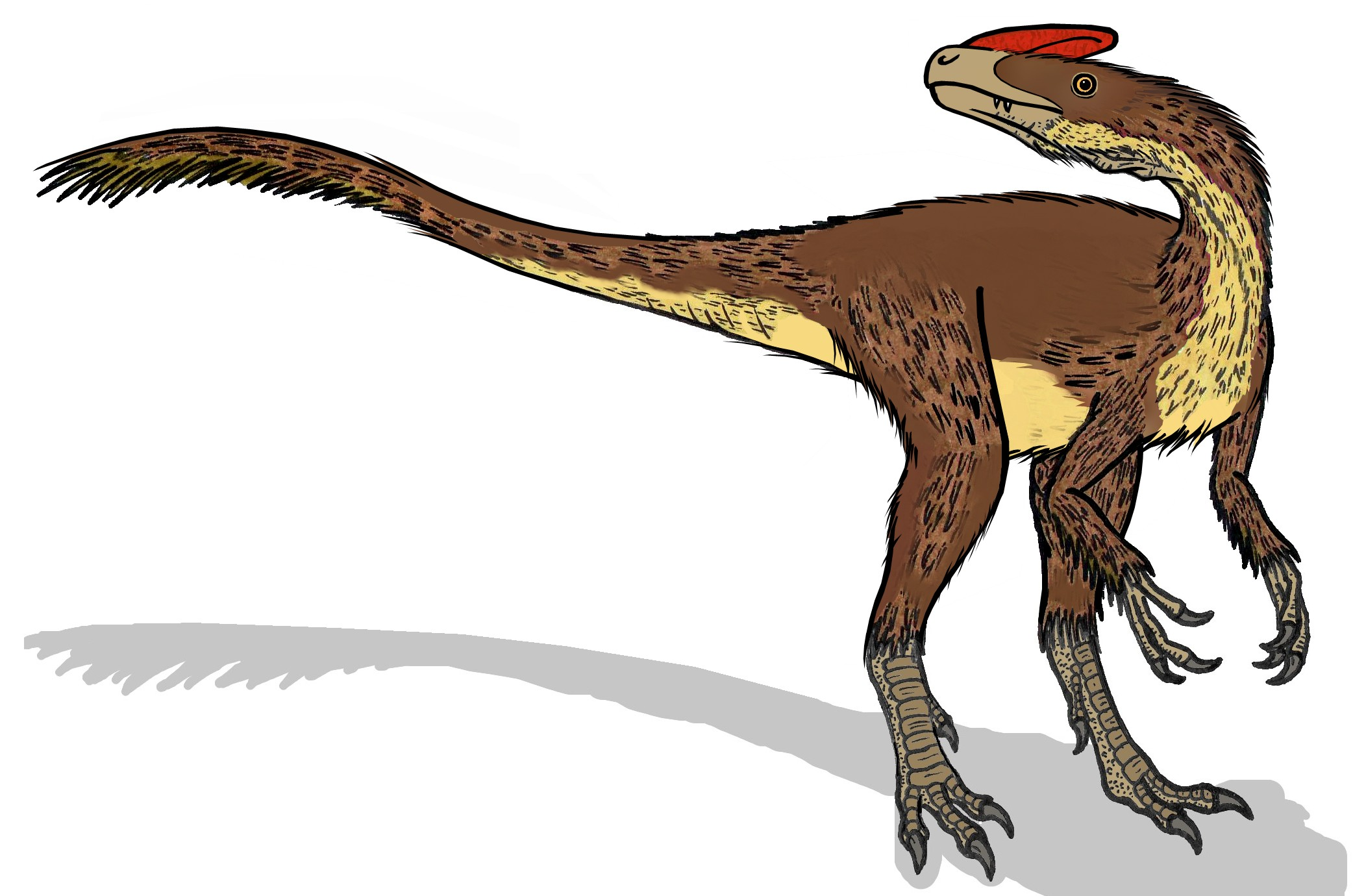 Illustration of the theropod dinosaur Guanlong wucaii, a tyrannosauroid from China, dated to the Oxfordian-stage (late jurassic). We don't know if it had feathers, but based on it's relative Dilong paradoxus, it may had the body covered with hairlike structures. It had a crest on the head, maybe used for displaying during rut. NOTE: the crest are to long, and should not go beyond the eyesocket. External links. ‘’ (Guanlong's skull). ‘’ (Guanlong's skull profile, pointing to the rights). ‘’ (Guanlong's skull profile, pointing to the left). ‘’ (Diagram of Guanlong's skull). ‘’ (a more nice illustration of Guanlong).